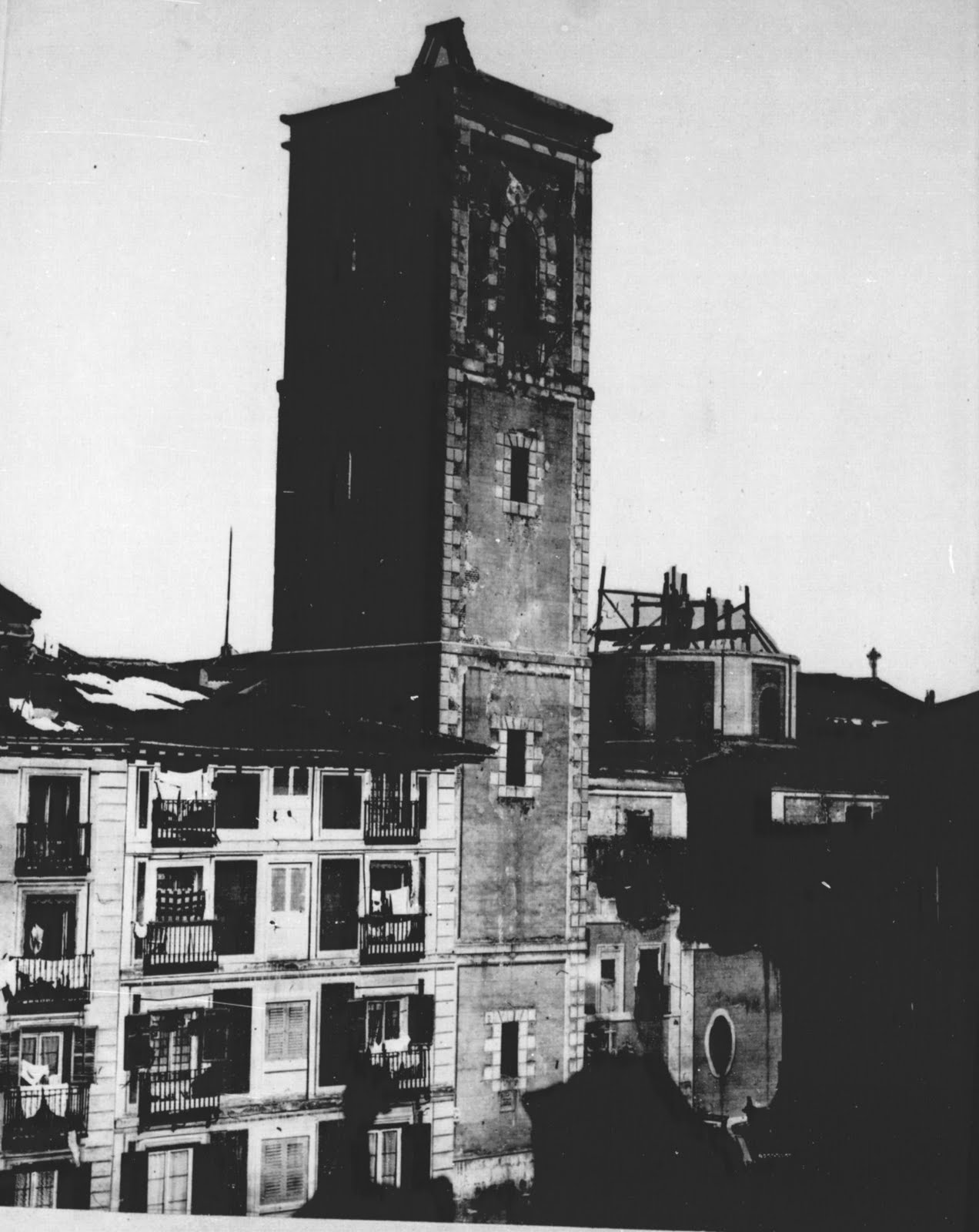 The Atalaya de la Corte in 1868, the year of its demolition.